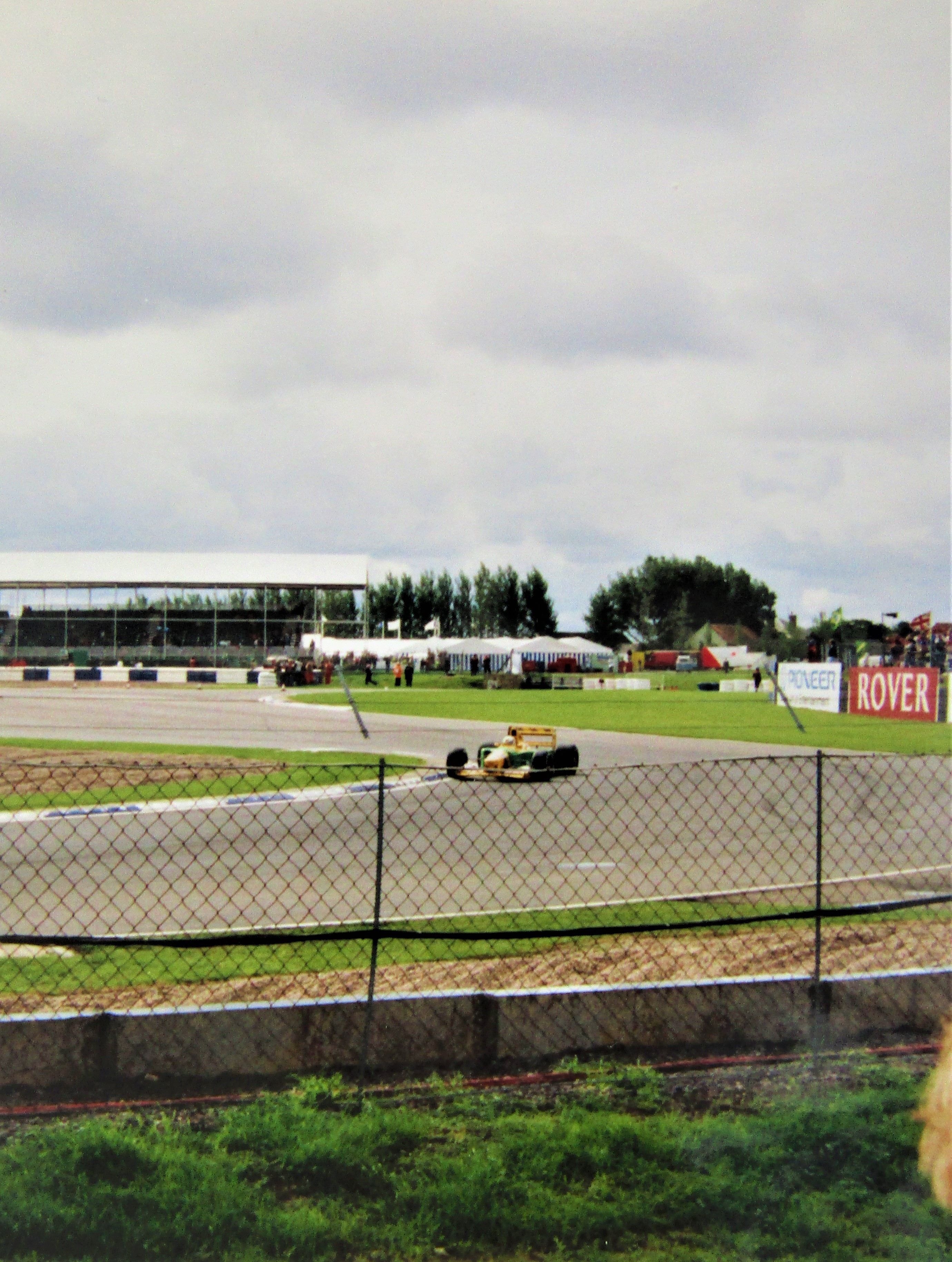 The Benetton B192 driven by Martin Brundel seen here at Woodcote during the 1992 British Grand Prix, Silverstone, England.